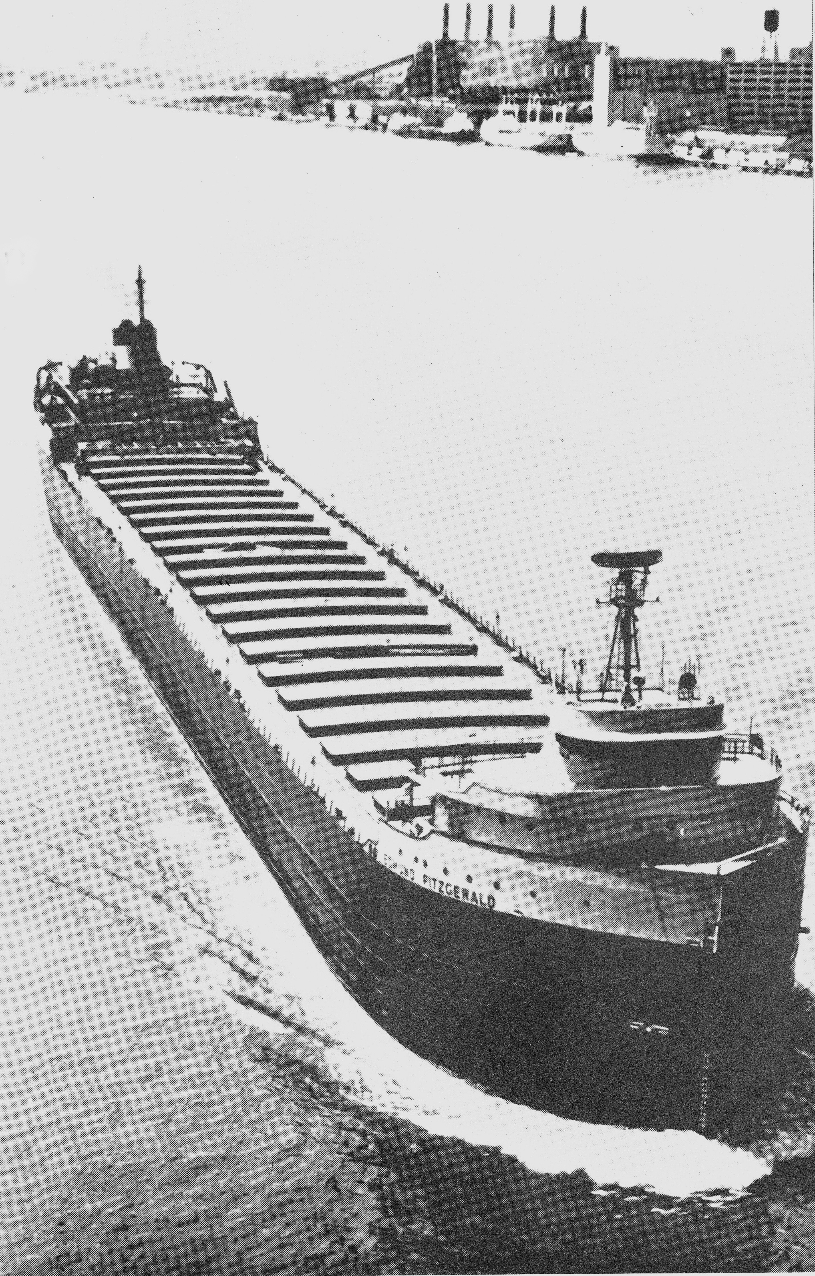 SS Edmund Fitzgerald upbound and in ballast